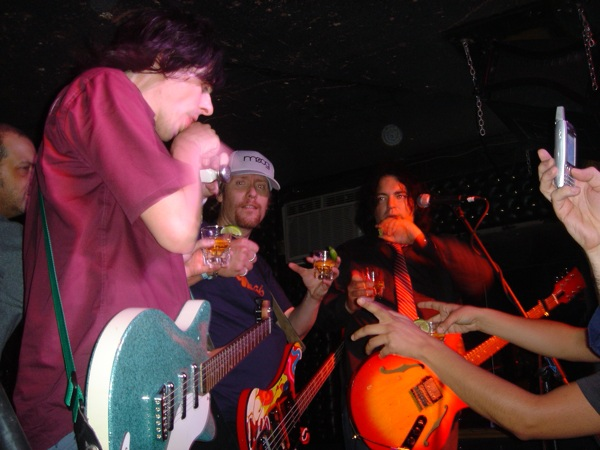 Rock band The Posies drinking tequila.